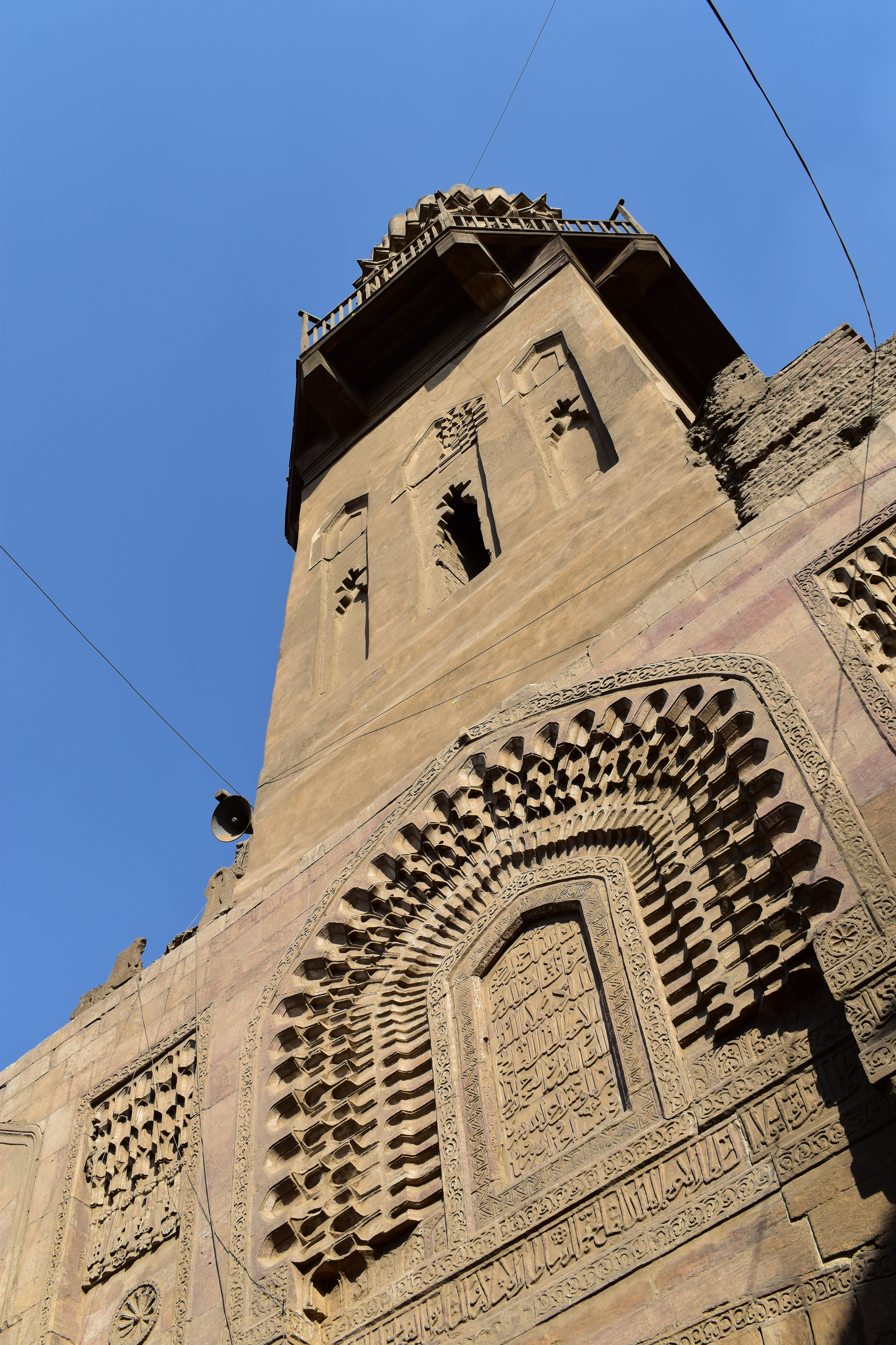 Muizz street, photo by Hatem Moushir